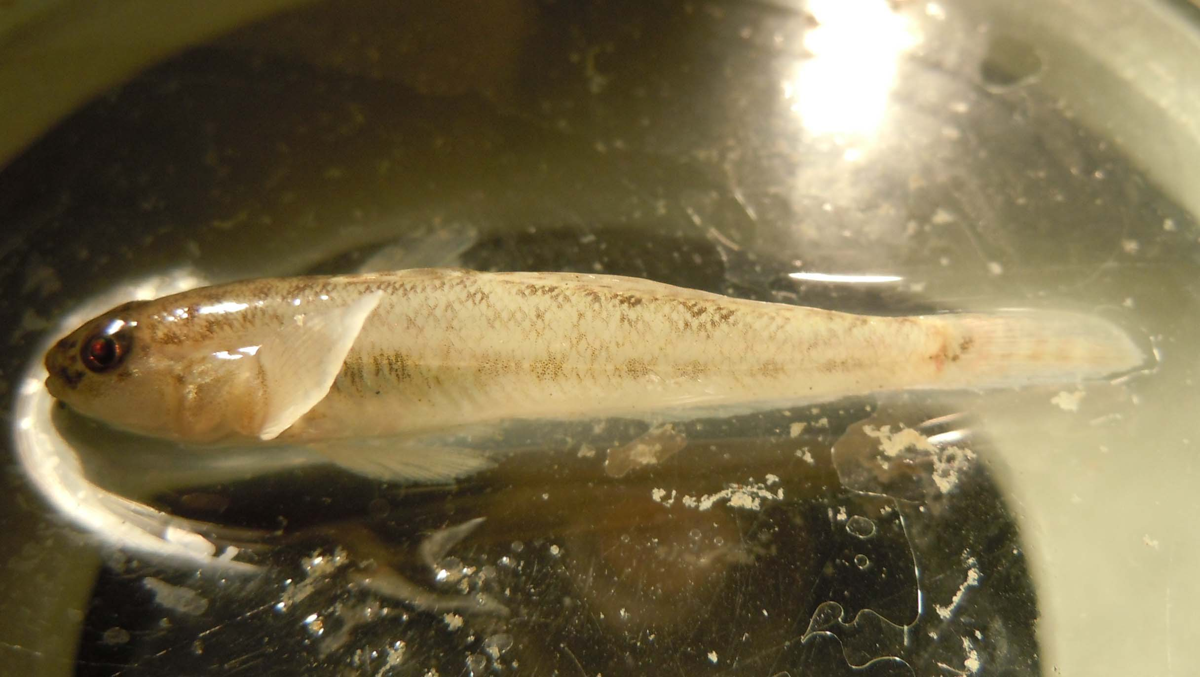 White goby (Neogobius pallasi) from the northern Caspian Sea